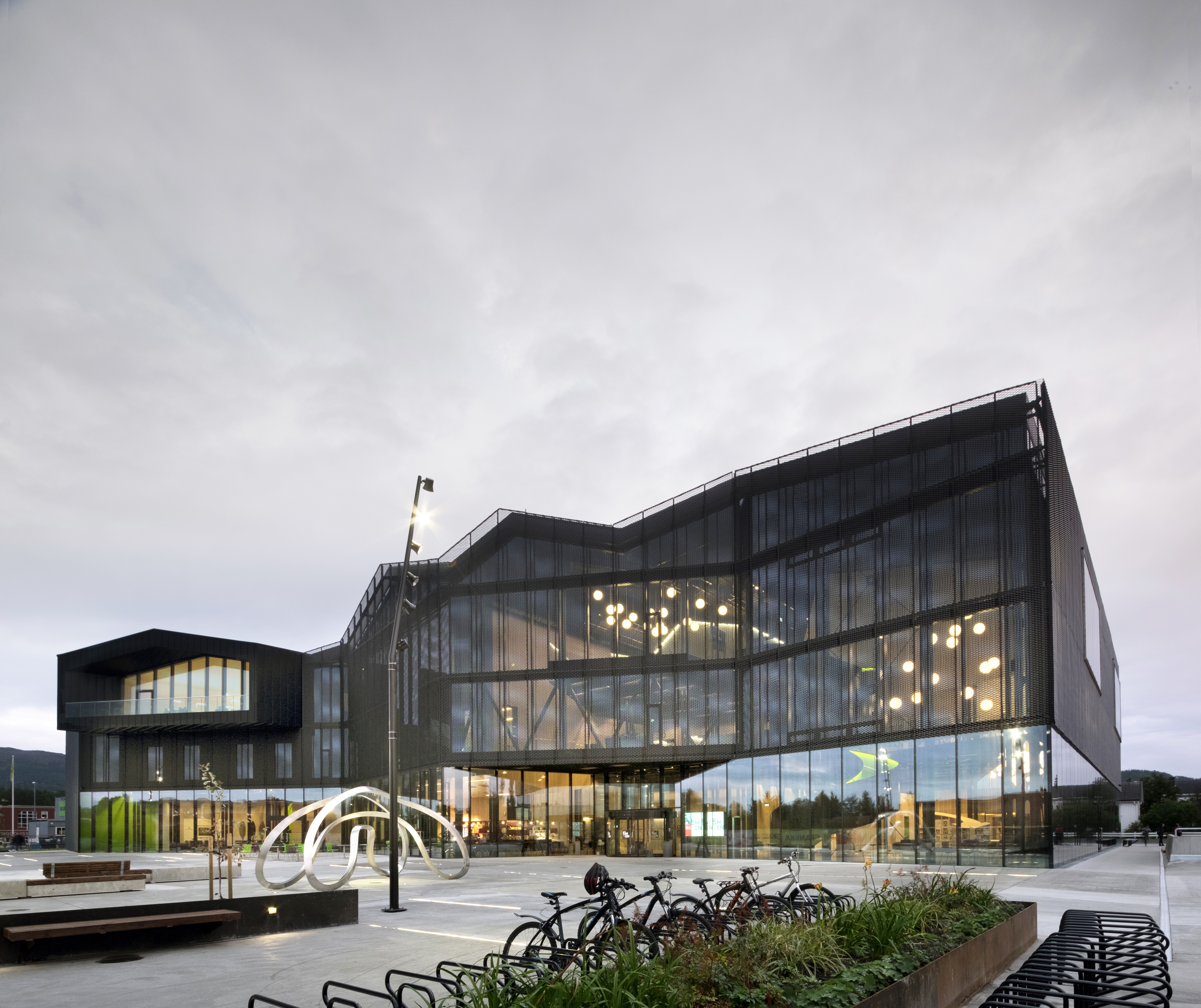 Stjørdal